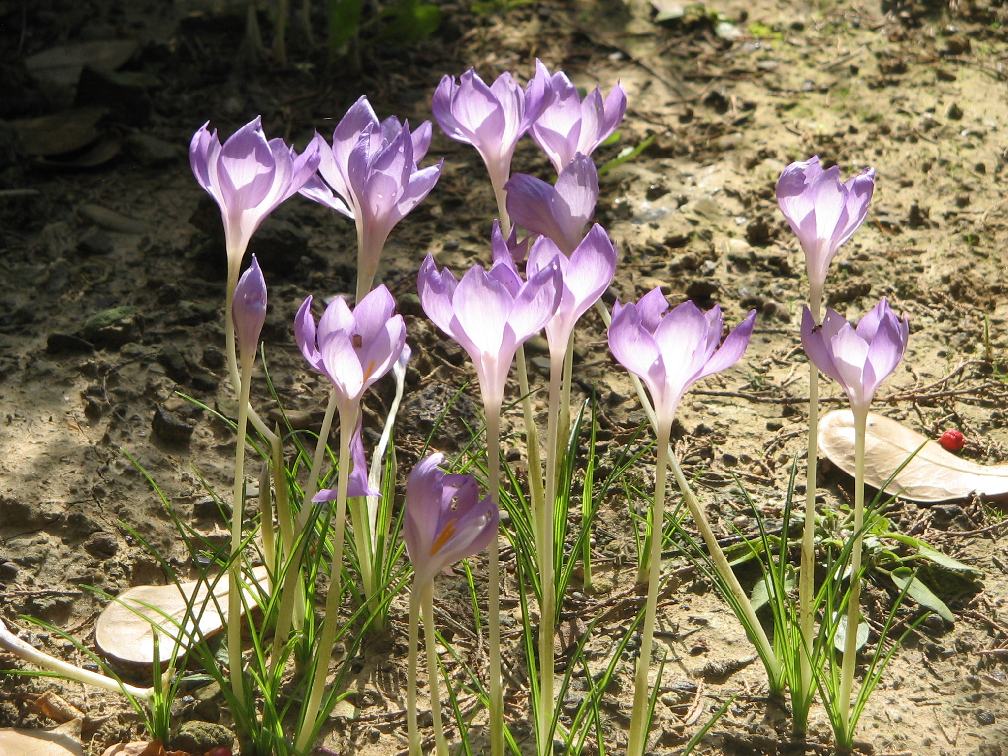 Crocus goulimyi clump